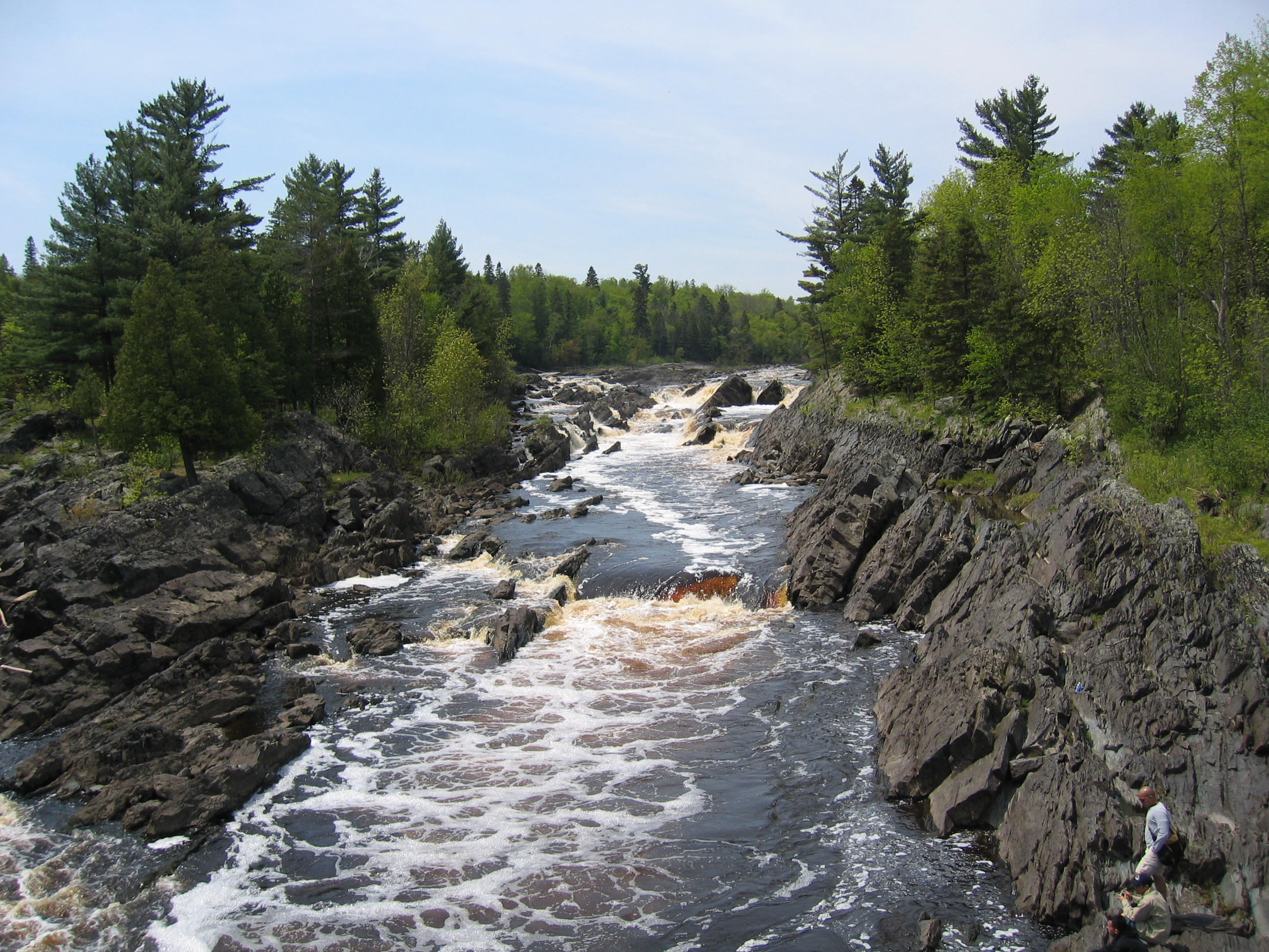 Picture of the St. Louis River rapids in Jay Cooke State Park. Taken from the swinging bridge in May of 2005, by me,User:Ravedave